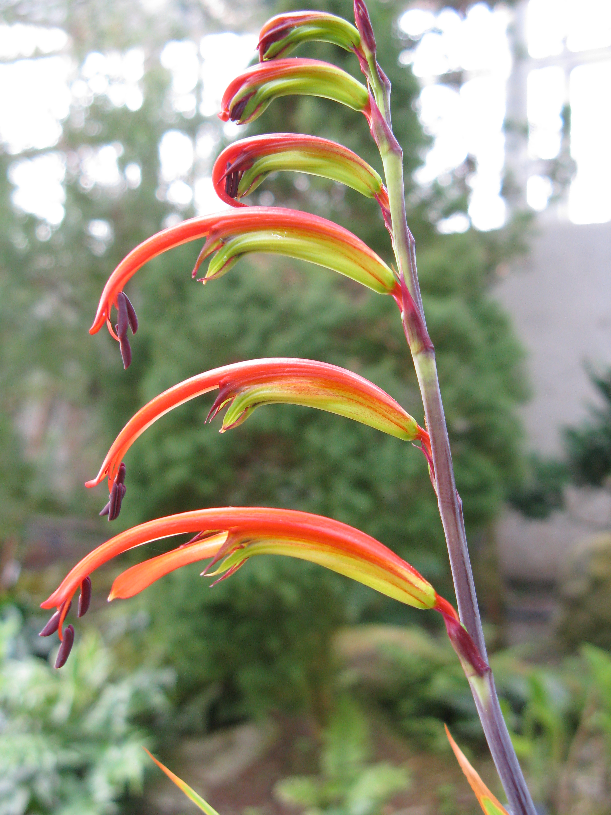 Scientific name Chasmanthe bicolor Place:Osaka Prefectural Flower Garden,Osaka,Japan